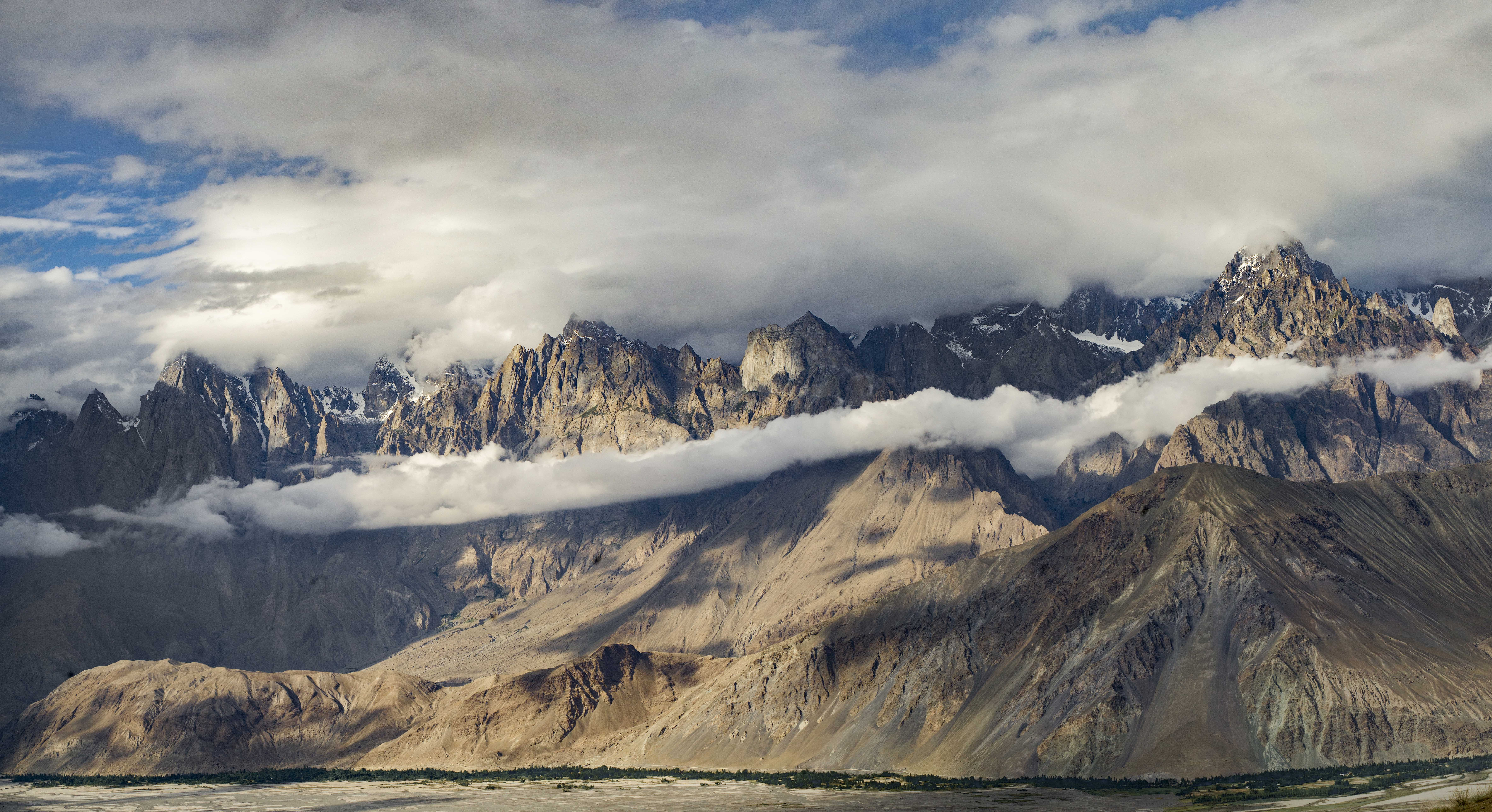 View of Haldi Cones in Khaplu valley, Gilgit Baltistan.